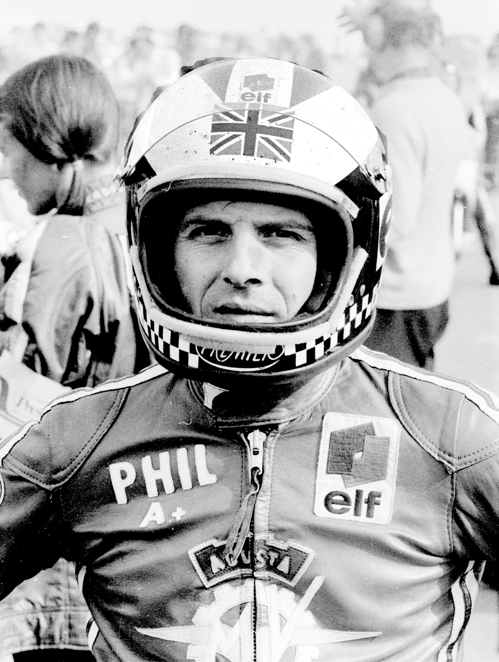 Phil Read, motorcyling racer